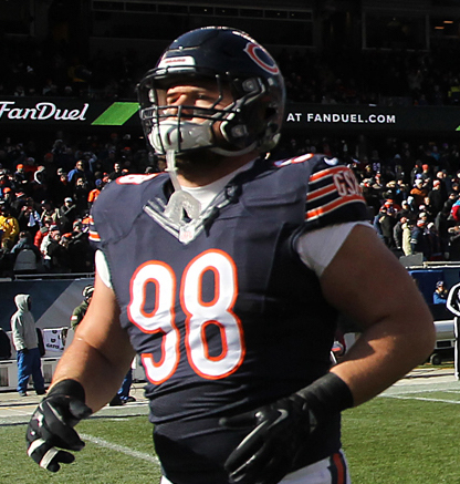 Chicago Bears defensive end, Mitch Unrein, in a game against the Denver Broncos on November 22, 2015.